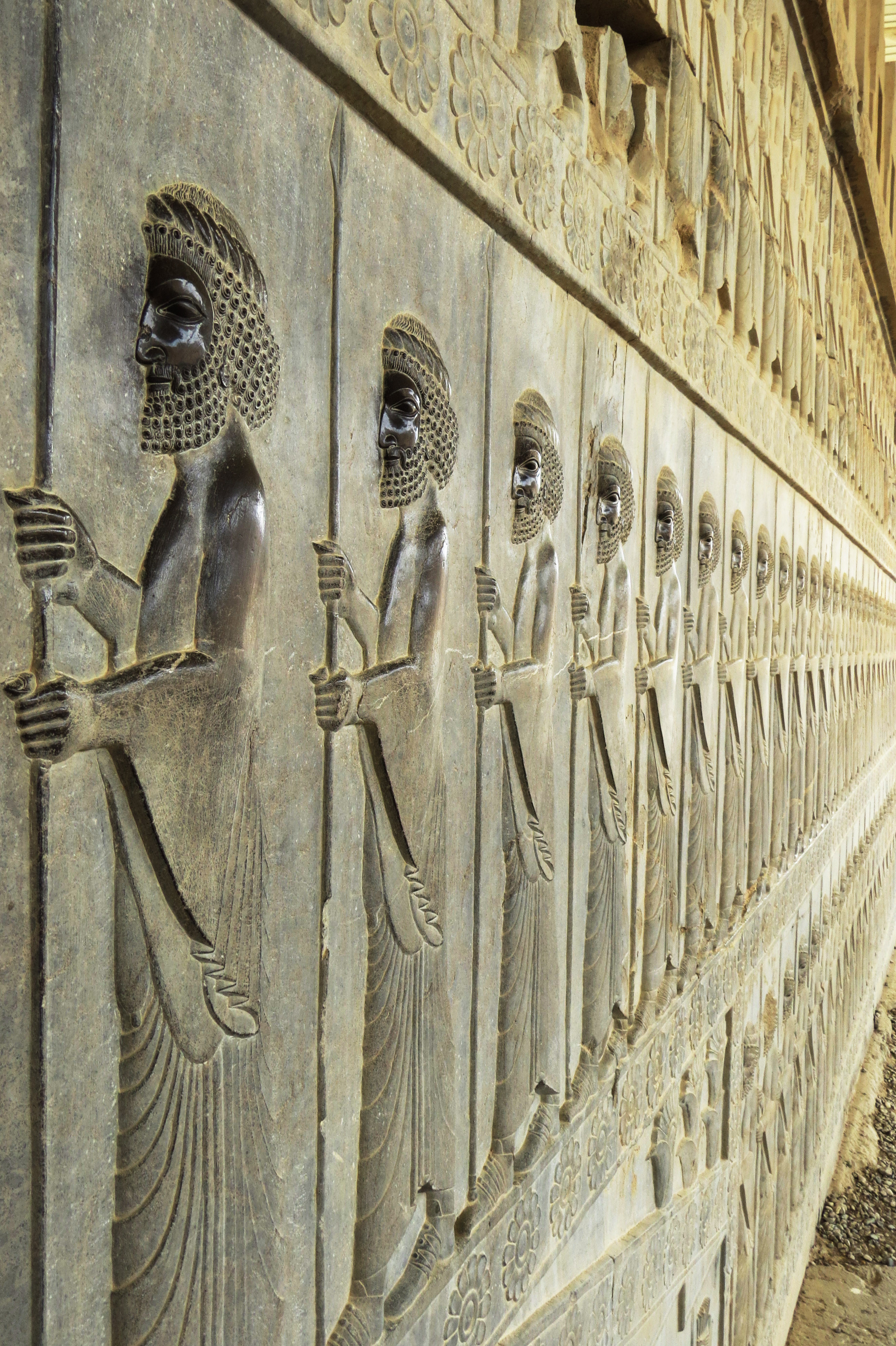 APADANA PALACE-PERSEPOLIS;IRAN-FARS-MARVDASHT;Nimaboroumand